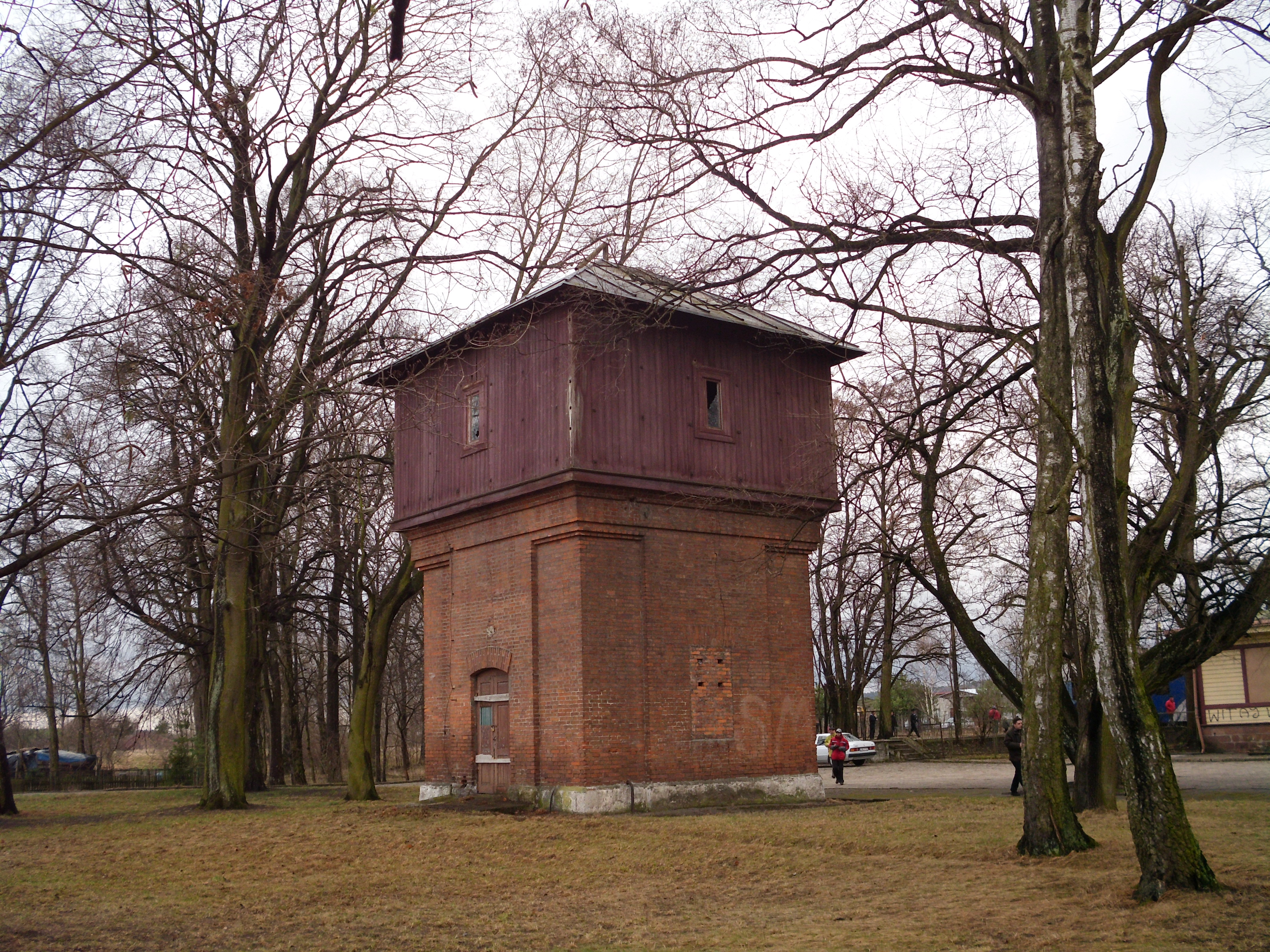 Water tower in Wola Uhruska, Poland